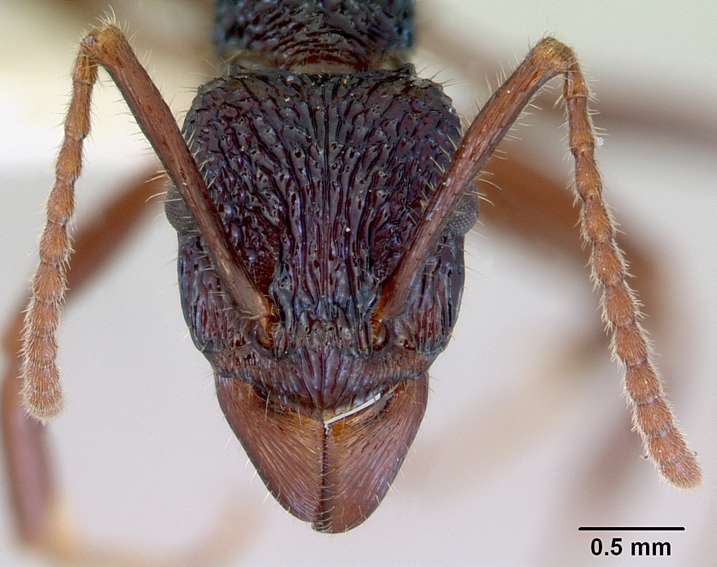 Head view of ant Rhytidoponera chalybaea specimen casent0172343.